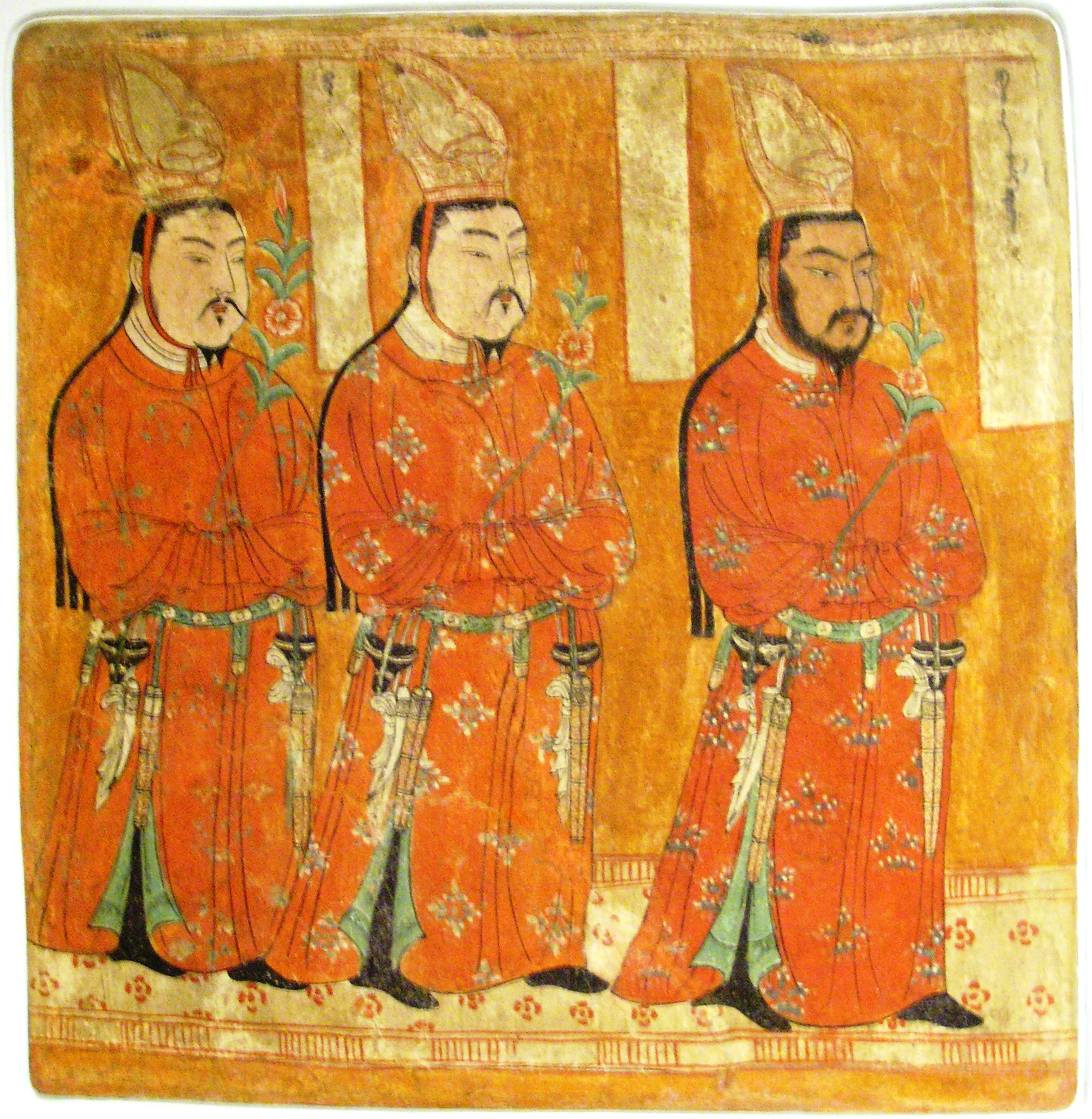 Uyghur Princes wearing Chinese-styled robes and headgear. Bezeklik, Cave 9, 9-12th century CE, wall painting, 62.4 x 59.5 cm. Located at the Museum für Indische Kunst, Berlin-Dahlem. Museum of Asian Art Native nameMuseum für Asiatische KunstParent institutionBerlin State Museums LocationBerlinCoordinates52° 27′ 21″ N, 13° 17′ 33″ E Established4 December 2006Web page[1]Authority control : Q370045 VIAF: 153451772 ISNI: 0000 0004 4893 5104 LCCN: no2007157600 GND: 10163291-5 SUDOC: 146108868 WorldCat institution QS:P195,Q370045